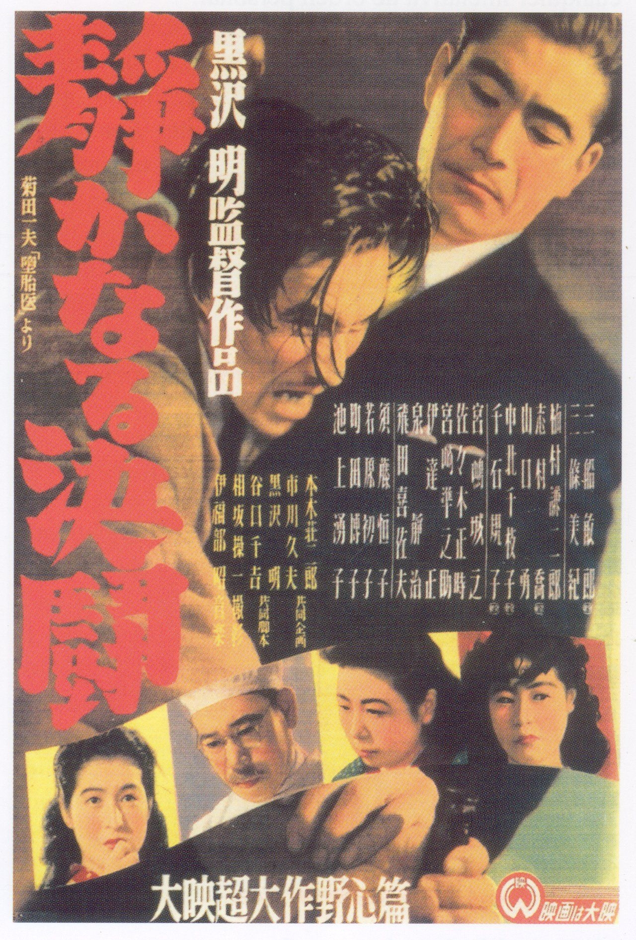 Movie poster for 1949 Japanese movie The Quiet Duel (静かなる決闘, Shizukanaru Ketto).